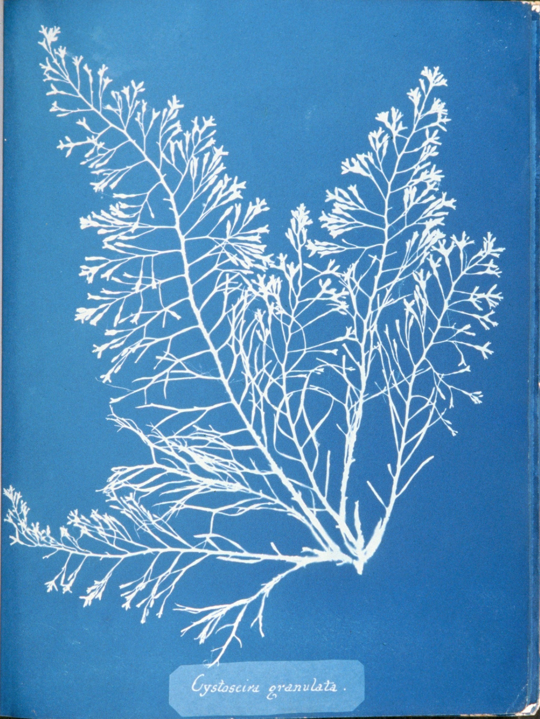 Cystoseira granulata. Cyanotype photogram.